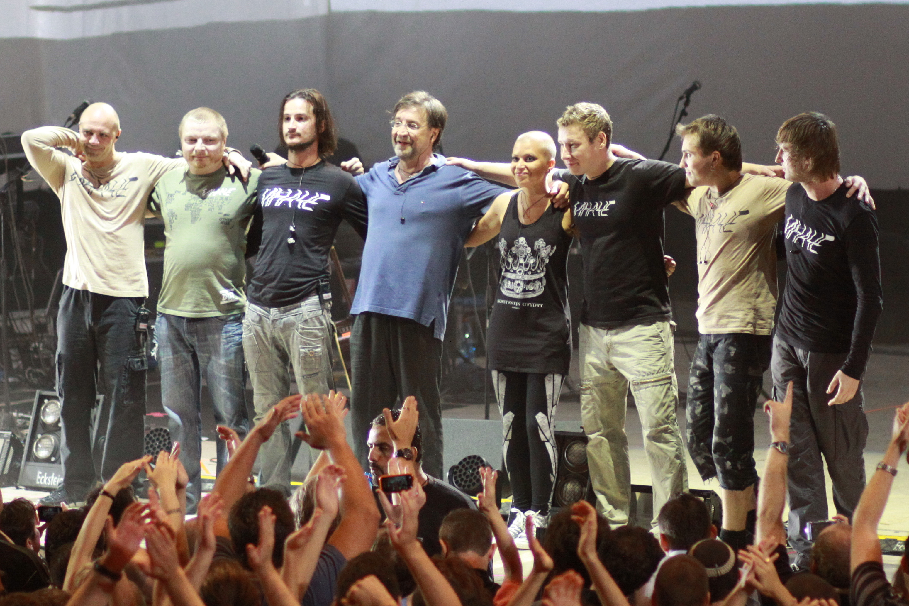 DDT, Concert in Caesarea, Israel, 2012-10-18